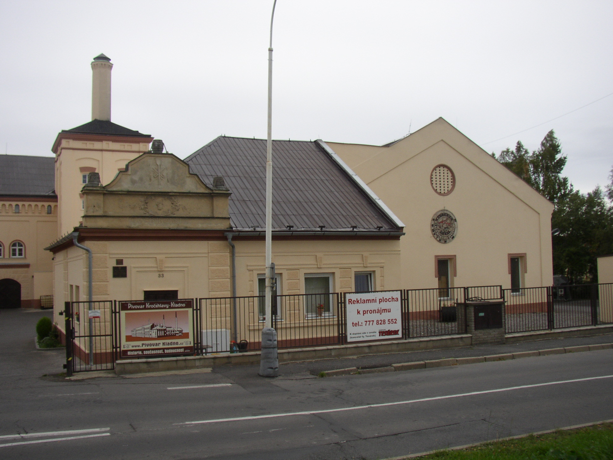 Former brewery in Kladno-Kročehlavy, Kladno District, Central Bohemian Region, Czech Republic. Built in 1858, in operation until 1950. The entrance building in the left is among listed Cultural Monuments of the Czech Republic.